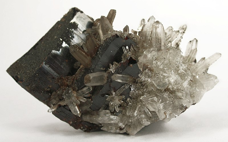 Hubnerite, Quartz Locality: Black Pine Mine (Combination Mine; Black Pine Tailings; Black Pine Dump), Flint Creek Valley, John Long Mts, Philipsburg District (Flint Creek District), Granite County, Montana, USA (Locality at ) Size: small cabinet, 6.0 x 3.6 x 3.5 cm Hubnerite and Quartz A highly significant American locality specimen, MUCH MUCH better and simply bigger than any others from this locale that I have ever seen. The specimen is not only significant, but also meets any aesthetic display criteria you could throw at it, as the Dyck collection was based on display and aesthetics before anything else and this had to fit in or they wouldn't have kept it. The crystal is 2.7 cm across. It is surely an old specimen, though the history has now been lost. ex. Mel and Grace Dyck Collection